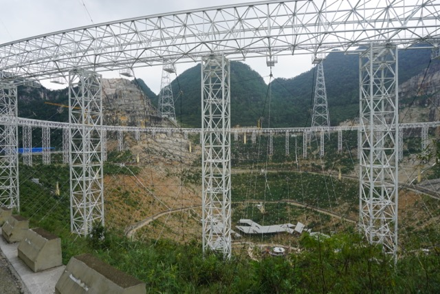 Picture of the Five-hundred-meter Aperture Spherical radio Telescope (FAST) during its construction in Guizhou Province, China. Begun in 2011, it was finished in 2016 and is the largest aperture single dish radio telescope in the world. It consists of a fixed 500 m (1,600 ft) dish built into a depression in the landscape.